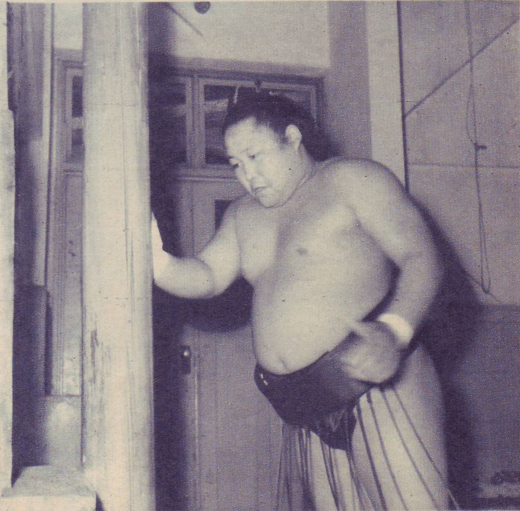 Maedagawa Katsuro. taken in 1961.